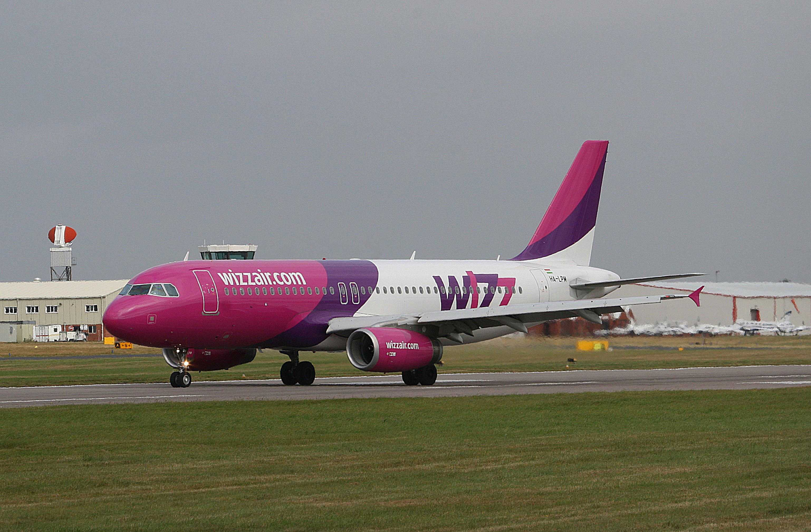 HA-LPM A320 Wizzair Coventry 14-09-2007